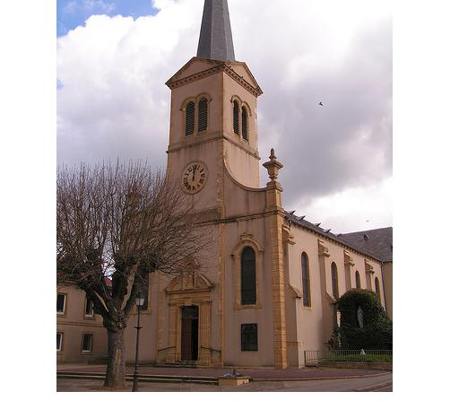 church of Vigy -France